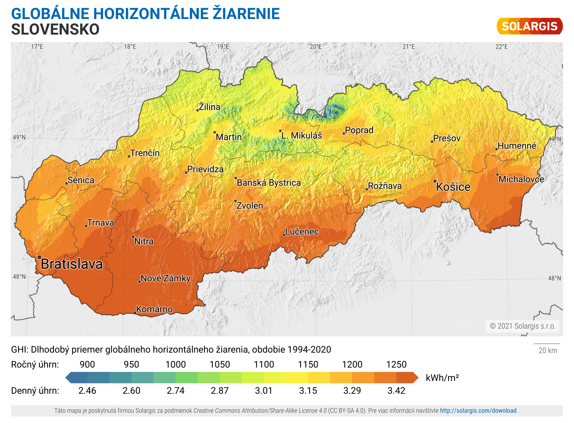 Solar Radiation Map: Mapa slnečného žiarenia v Slovenskej Republike, SolarGIS 2011